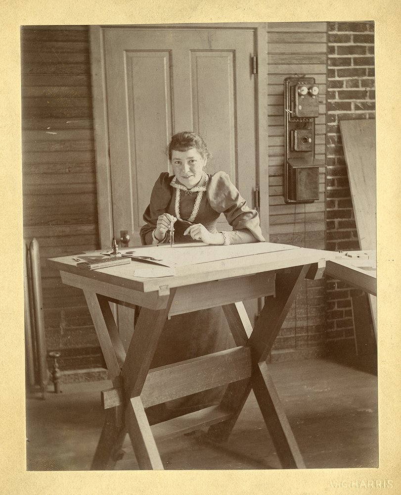 Bertha Lamme (1869–1943), American electrical engineer, at work at Westinghouse Electric & Manufacturing Company, Pittsburgh.